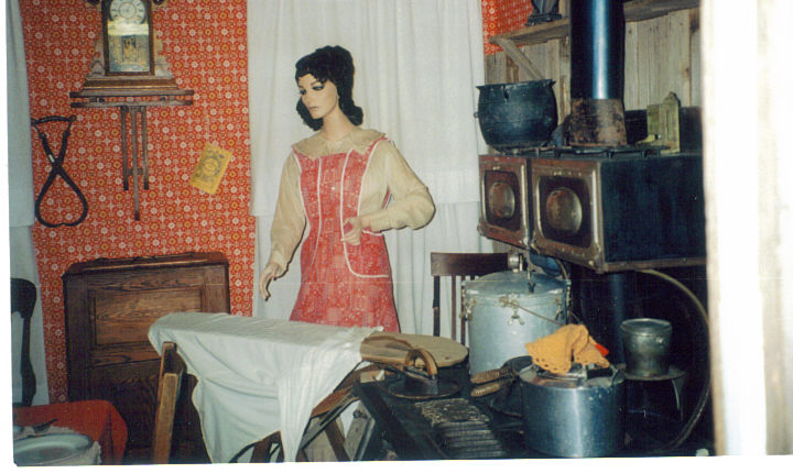 I took photo on Aug. 4, 2000.Billy Hathorn (talk) 00:14, 3 July 2008 (UTC)